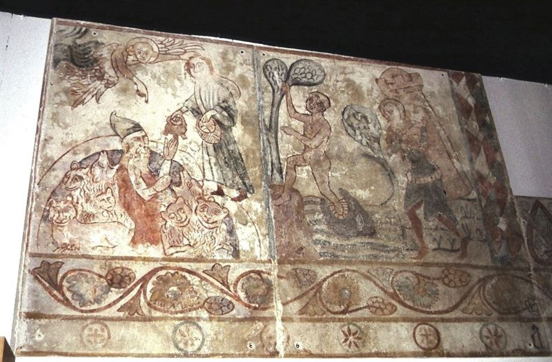 Tirsted Kirke (church)